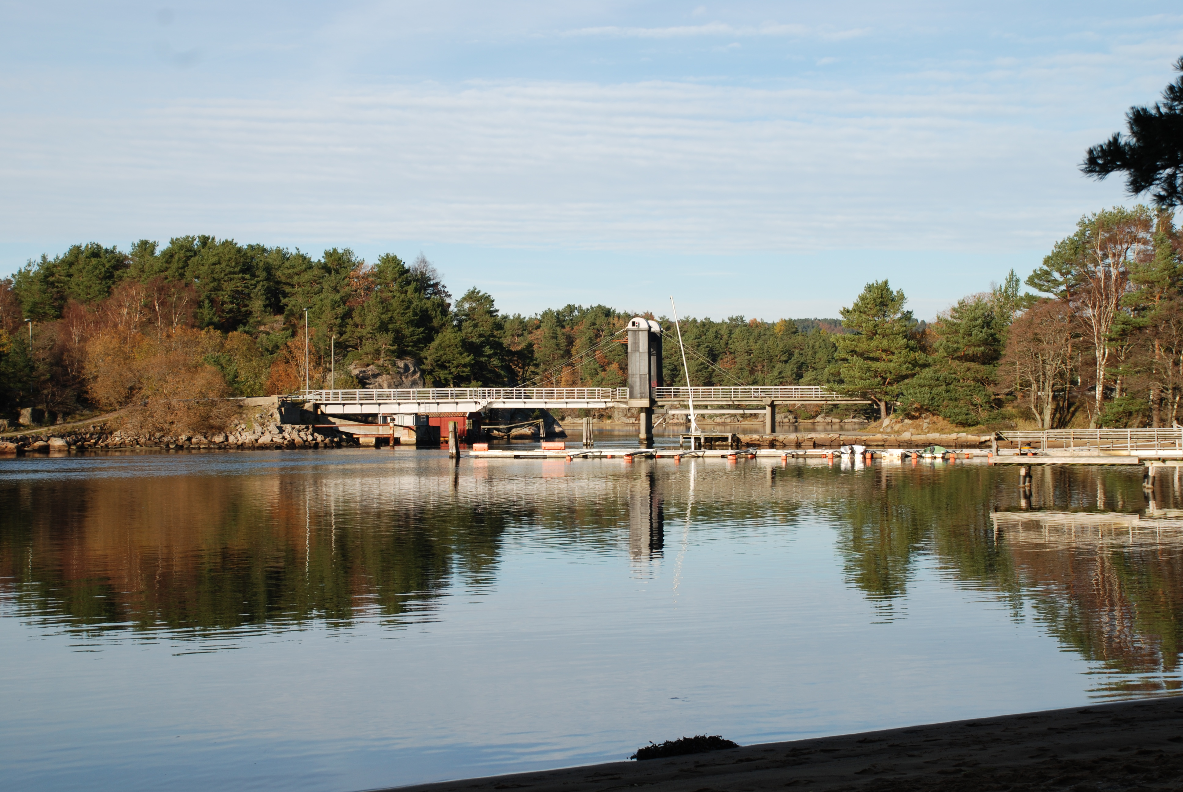 Skogsfjorden and the bridge Bankebroa in Mandal, Vest-Agder, Norway. Norsk (bokmål): Skogsfjorden i Mandal, med Bankebroa. Sett fra stranda Lillebanken i Furulunden.